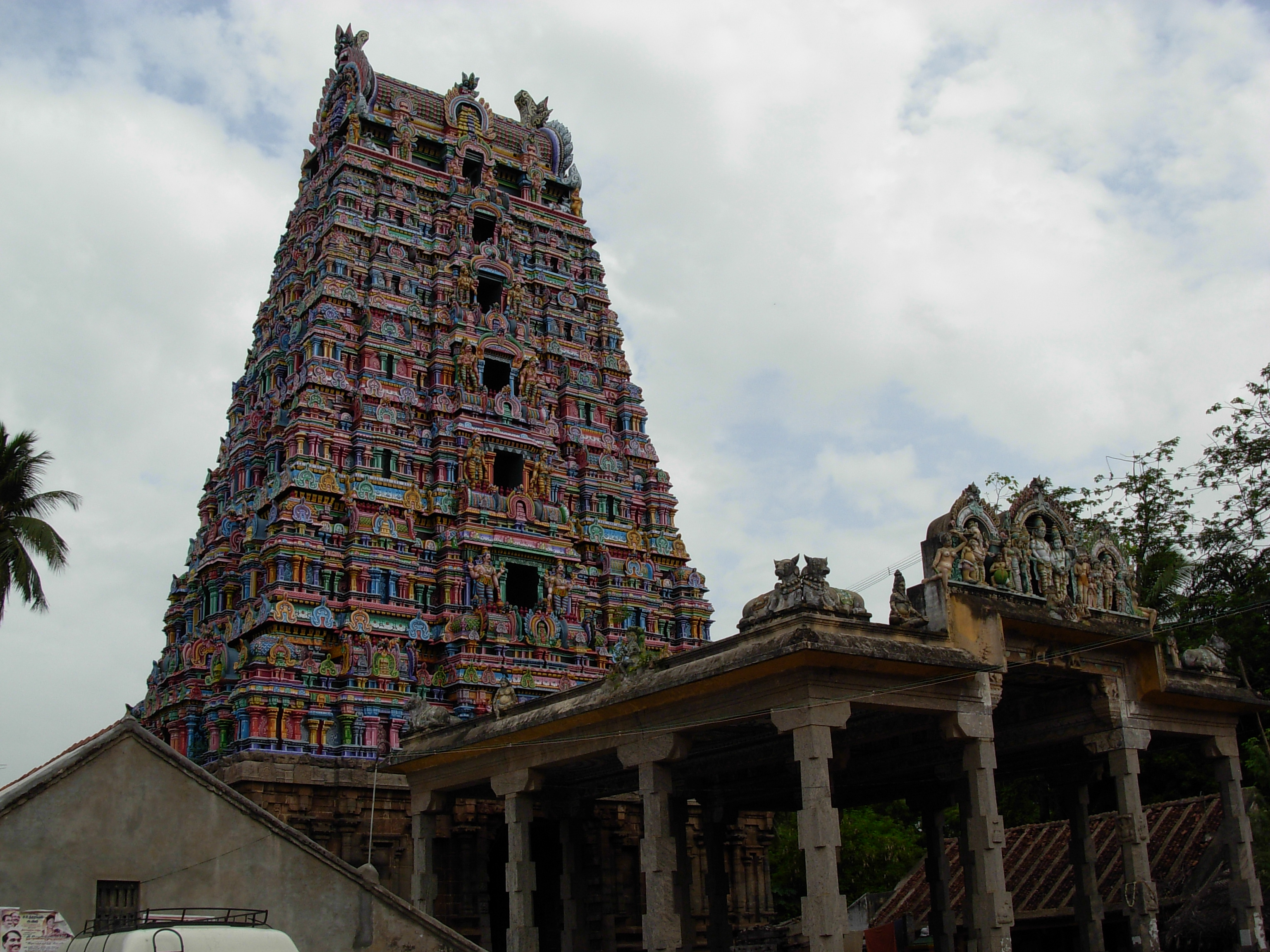 The main entrance of Sri Veerattaneswarar Temple (also known as Thiruvathigai Veerattaneswarar Temple)